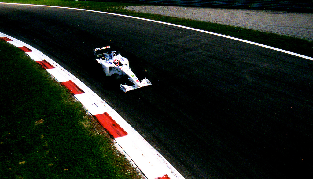 Johnny Herbert testing for Stewart Grand Prix at Monza in 1999.